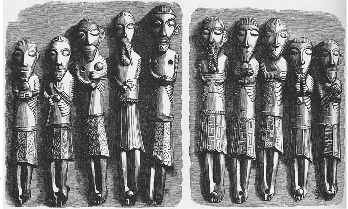 The Shrine of Manchan, Ten figures remaining on the front of the shrine in 1876. Another figure was found at Clonmacnoise a few years later. In 2014, the fourth figure from left was identified as early representation of Olaf II of Norway.